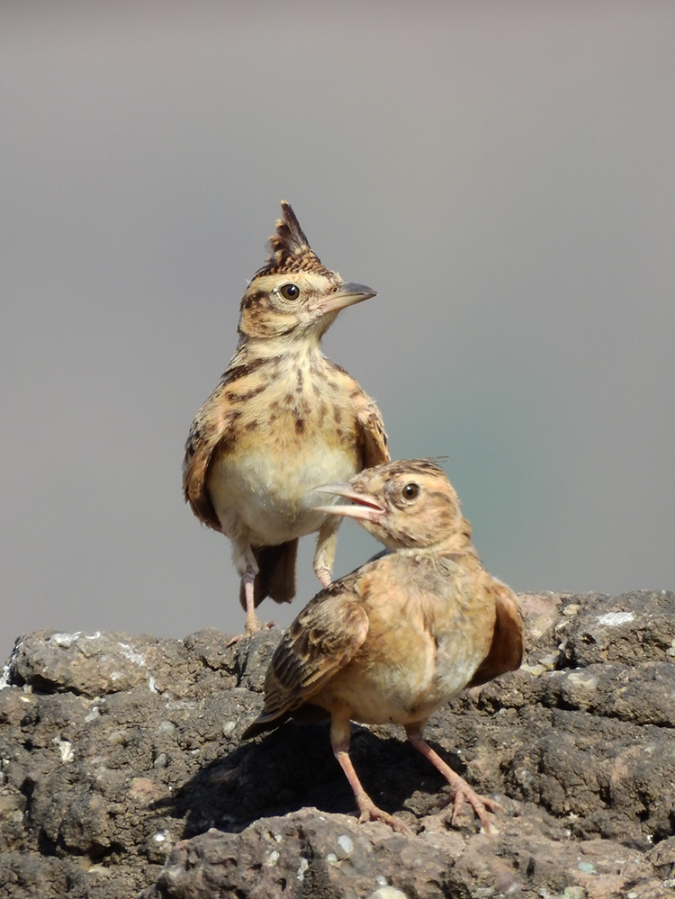 A pair of Malabar crested lark (Galerida malabarica) Photograph by Shantanu Kuveskar Location : Mangaon, Raigad, Maharashtra, India